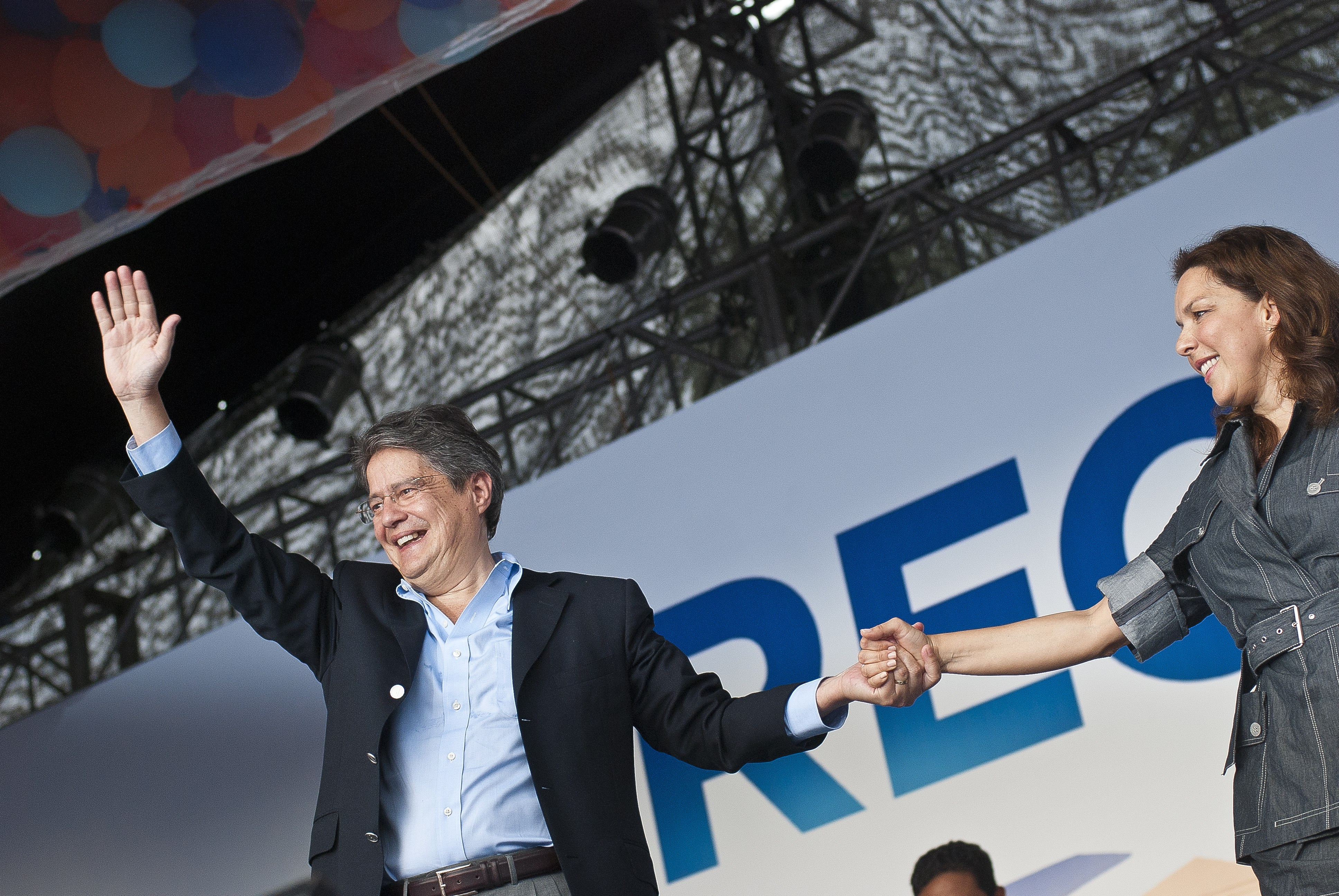 Guillermo Lasso y su esposa María Lourdes Alcívar, en el lanzamiento de su candidatura en Portoviejo, Manabí.